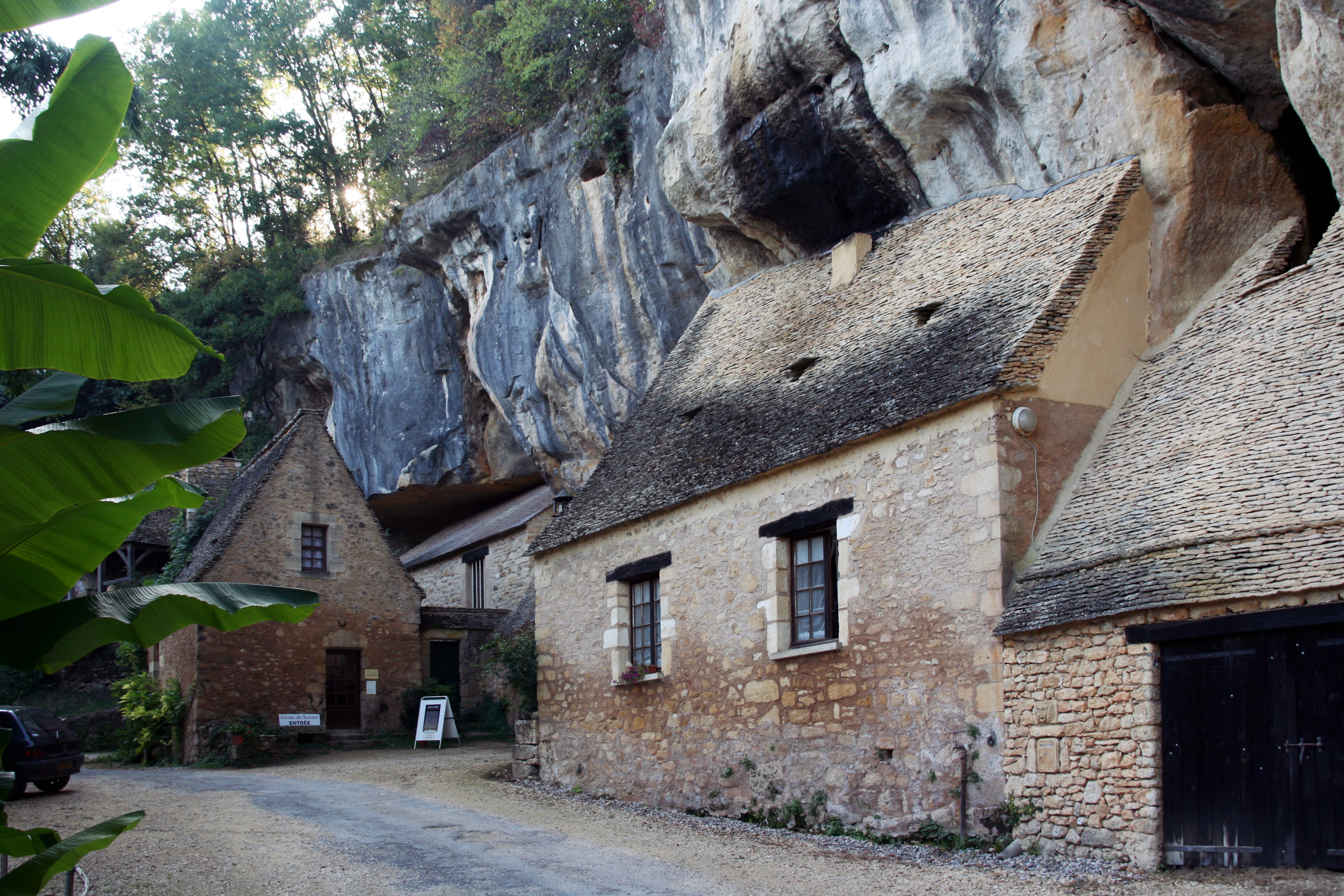 Upper part Saint-Cirq village, near the Roc de Saint-Cirq prehistoric cave. Dordogne, Aquitaine, France.